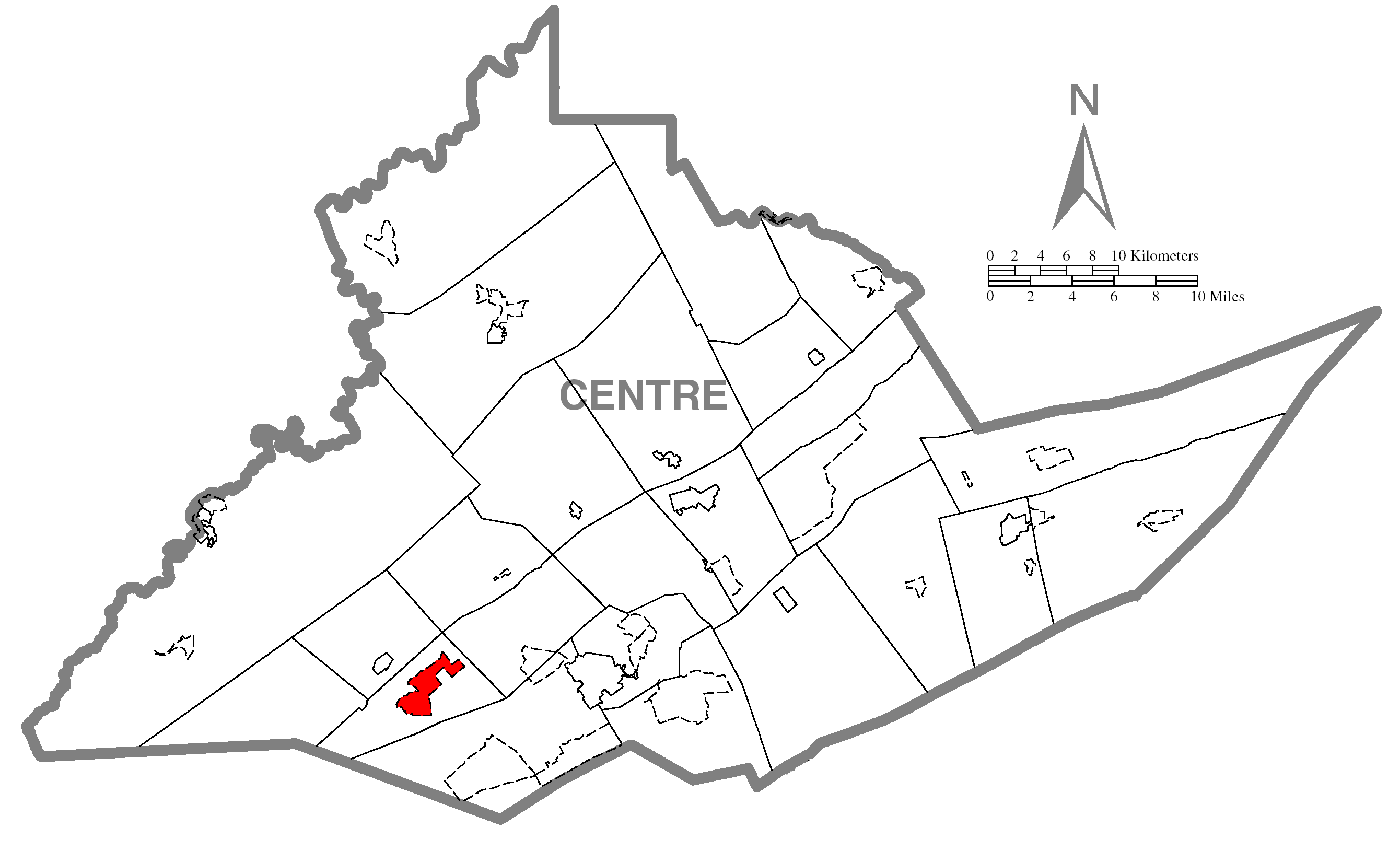 A map of Centre County showing Stormstown, Pennsylvania (alternate) highlighted on the map.